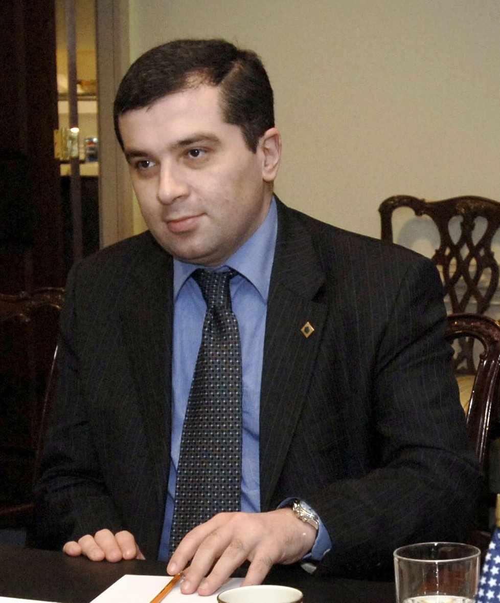 David Bakradze.